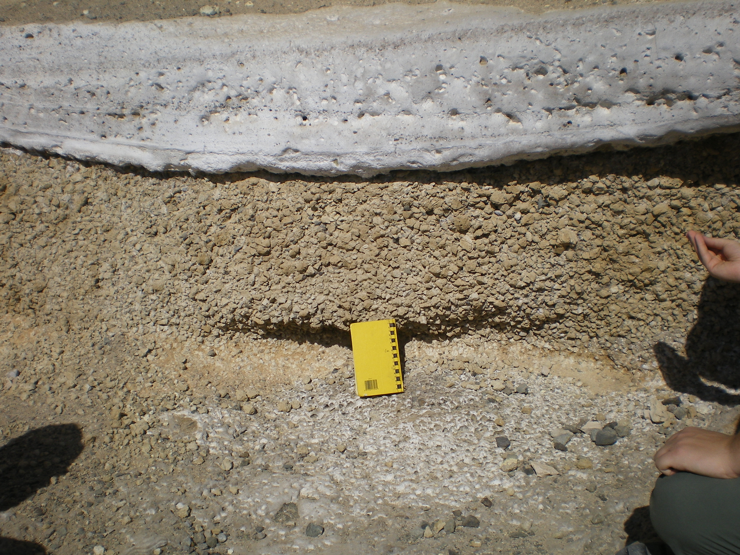 Volcanic ash and lapilli fall deposit. Summary I took this photo